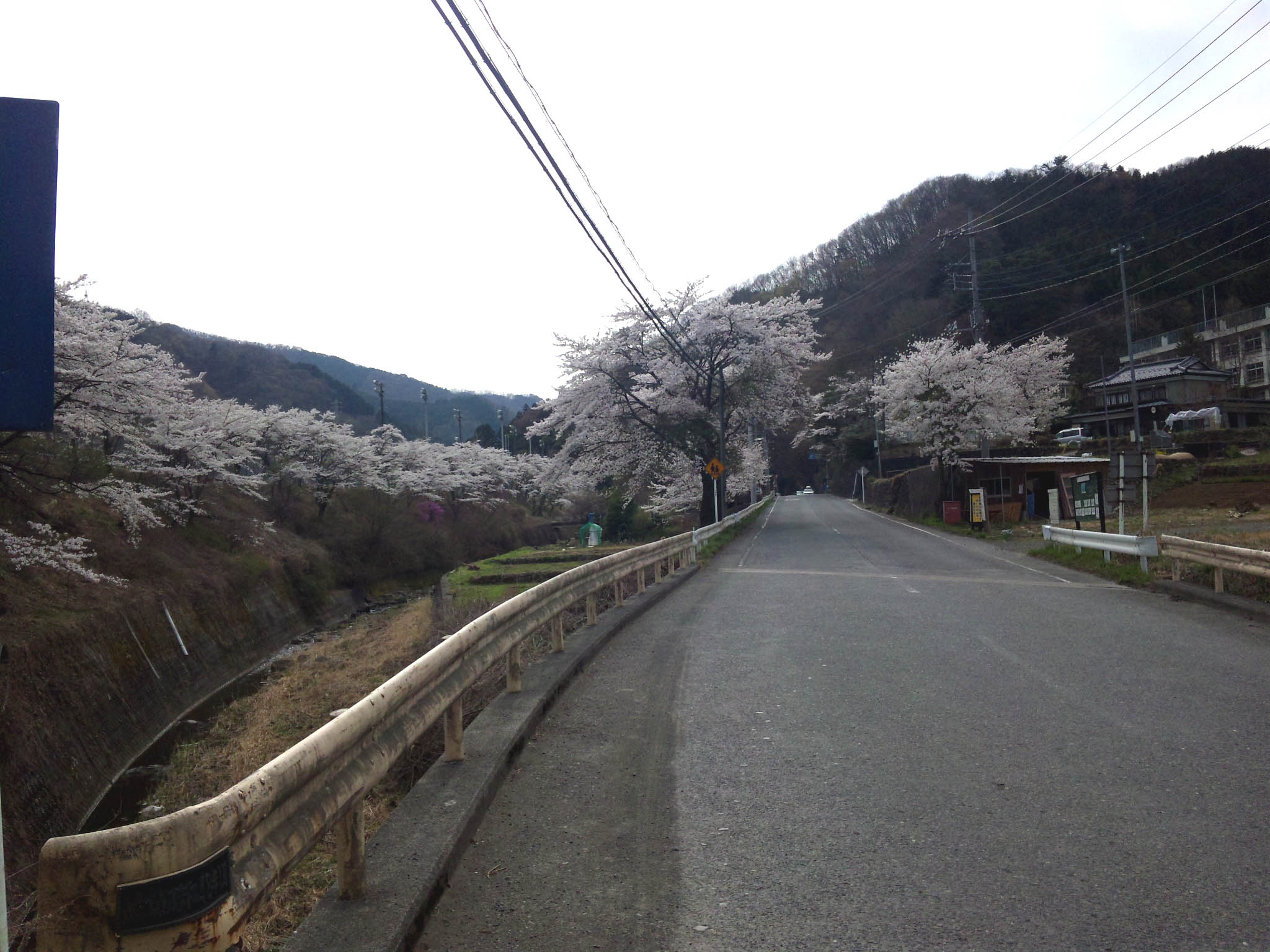 AKIYAMA Vil YAMANASHI